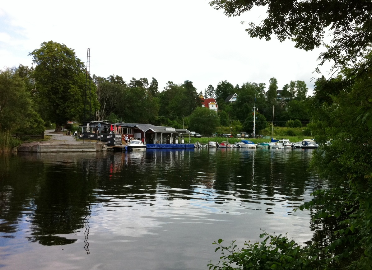 Stäket, part of Järfälla municipality, Sweden